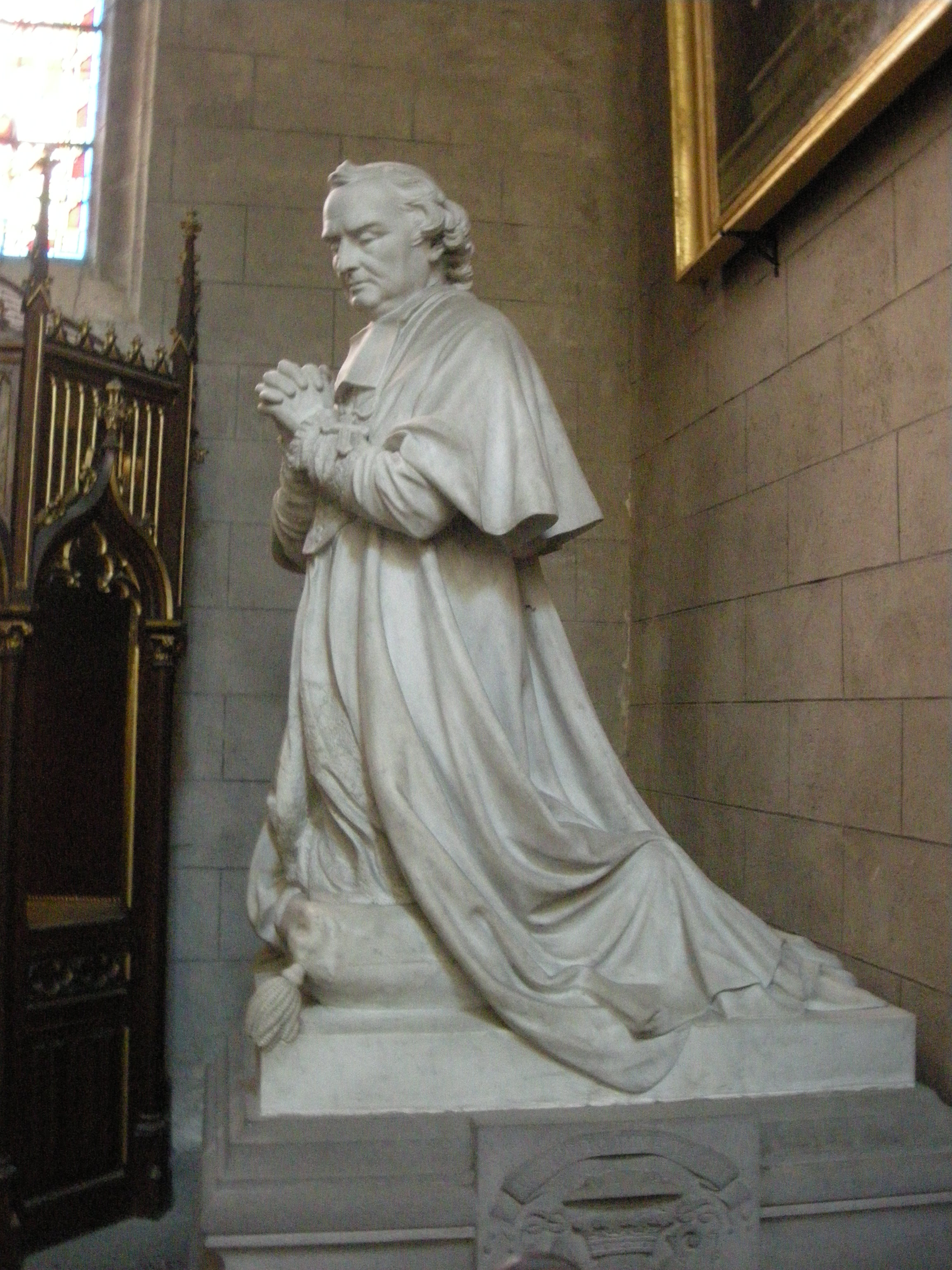 Statue of Mgr de Pompignac by Oliva (1881) in Saint-Flour Cathedral